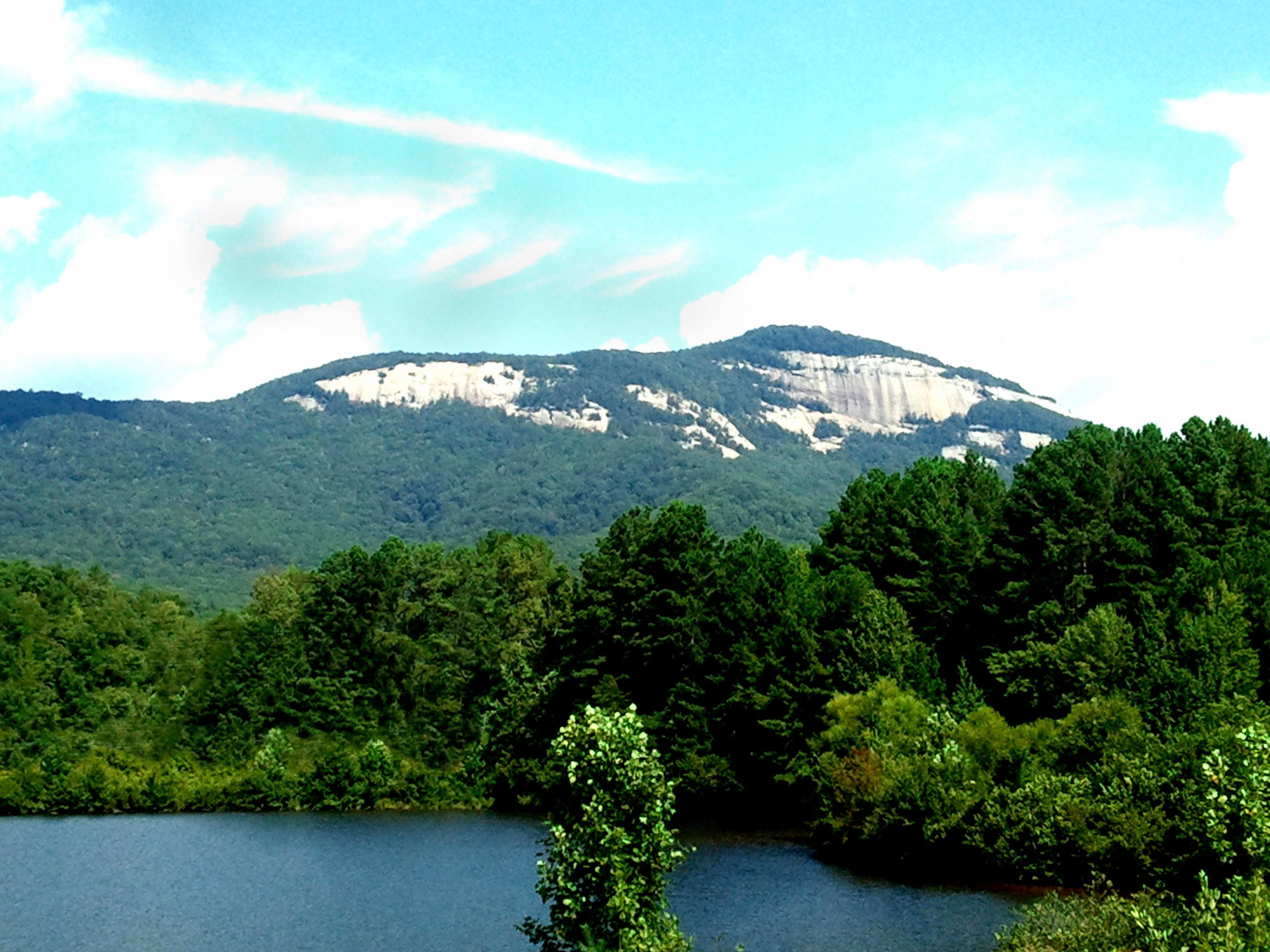 Table Rock Mountain, as seen across the lake at the Visitor's Center of Oolenoy State Park